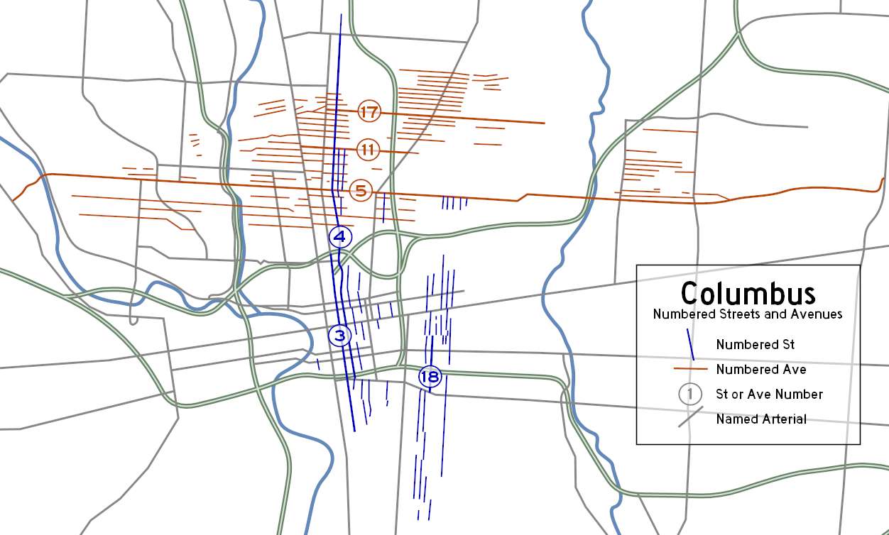 I drew this map to illustrate the locations of numbered streets and avenues in Columbus, Ohio.